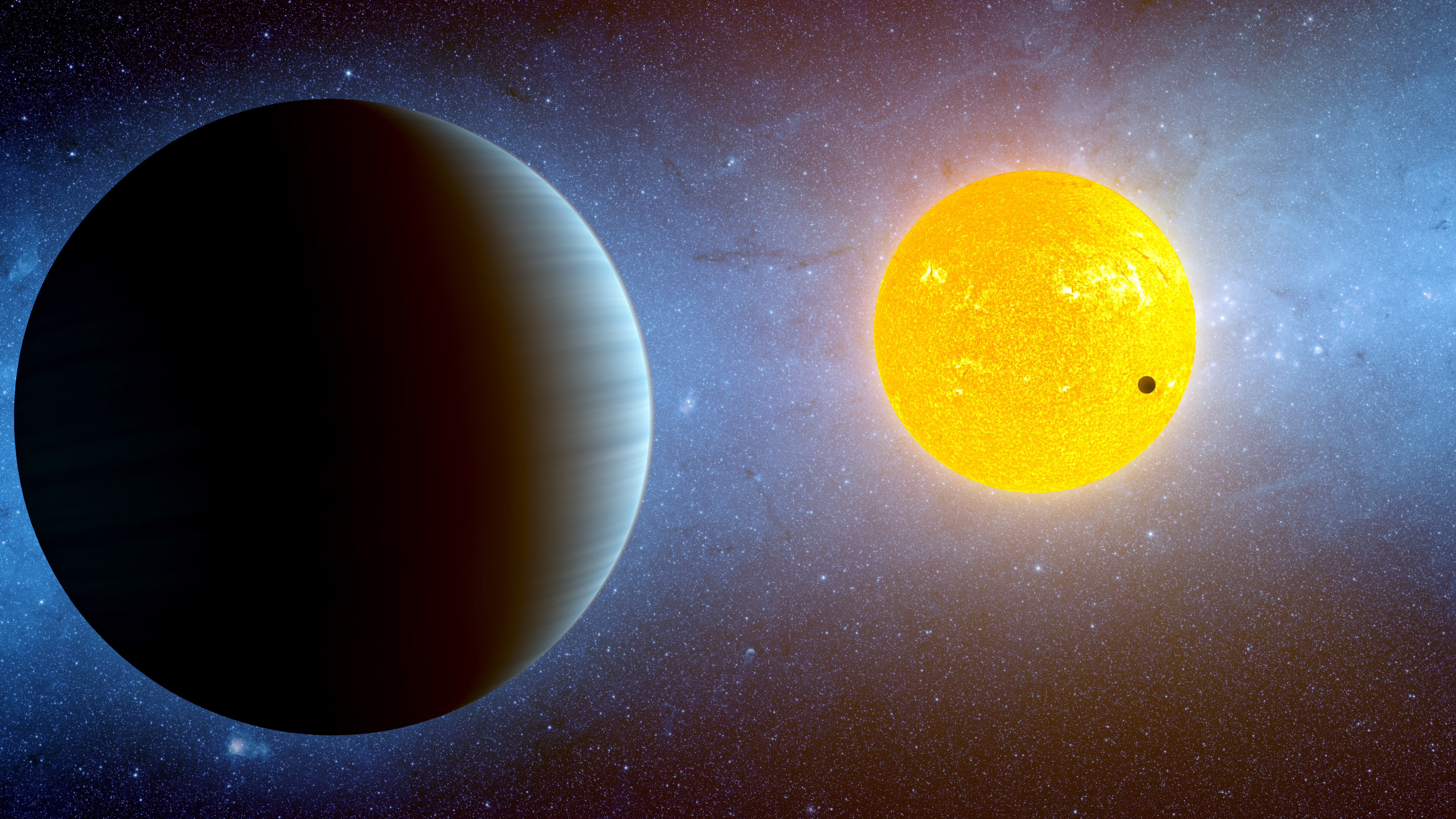 This artist's conception depicts the Kepler-10 star system, located about 560 light-years away near the Cygnus and Lyra constellations. Kepler has discovered two planets around this star. Kepler-10b is, to date, the smallest known rocky exoplanet, or planet outside our solar system (dark spot against yellow sun). This planet, which has a radius of 1.4 times that of Earth's, whips around its star every .8 days. Its discovery was announced in Jan. 2011.